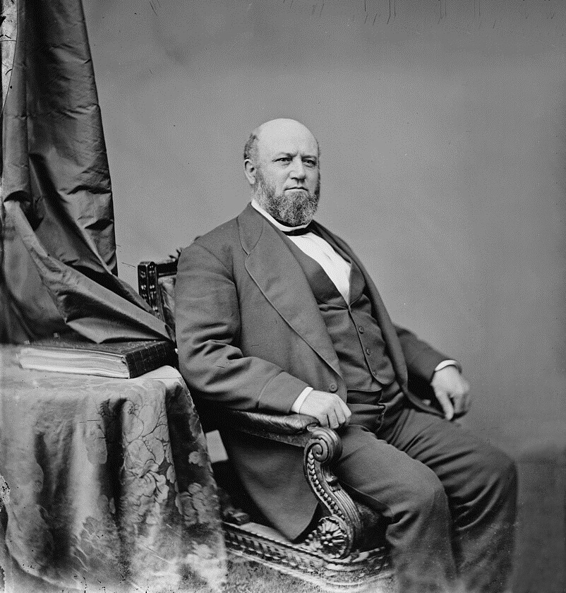 Peter W. Strader from Brady Handy Collection.